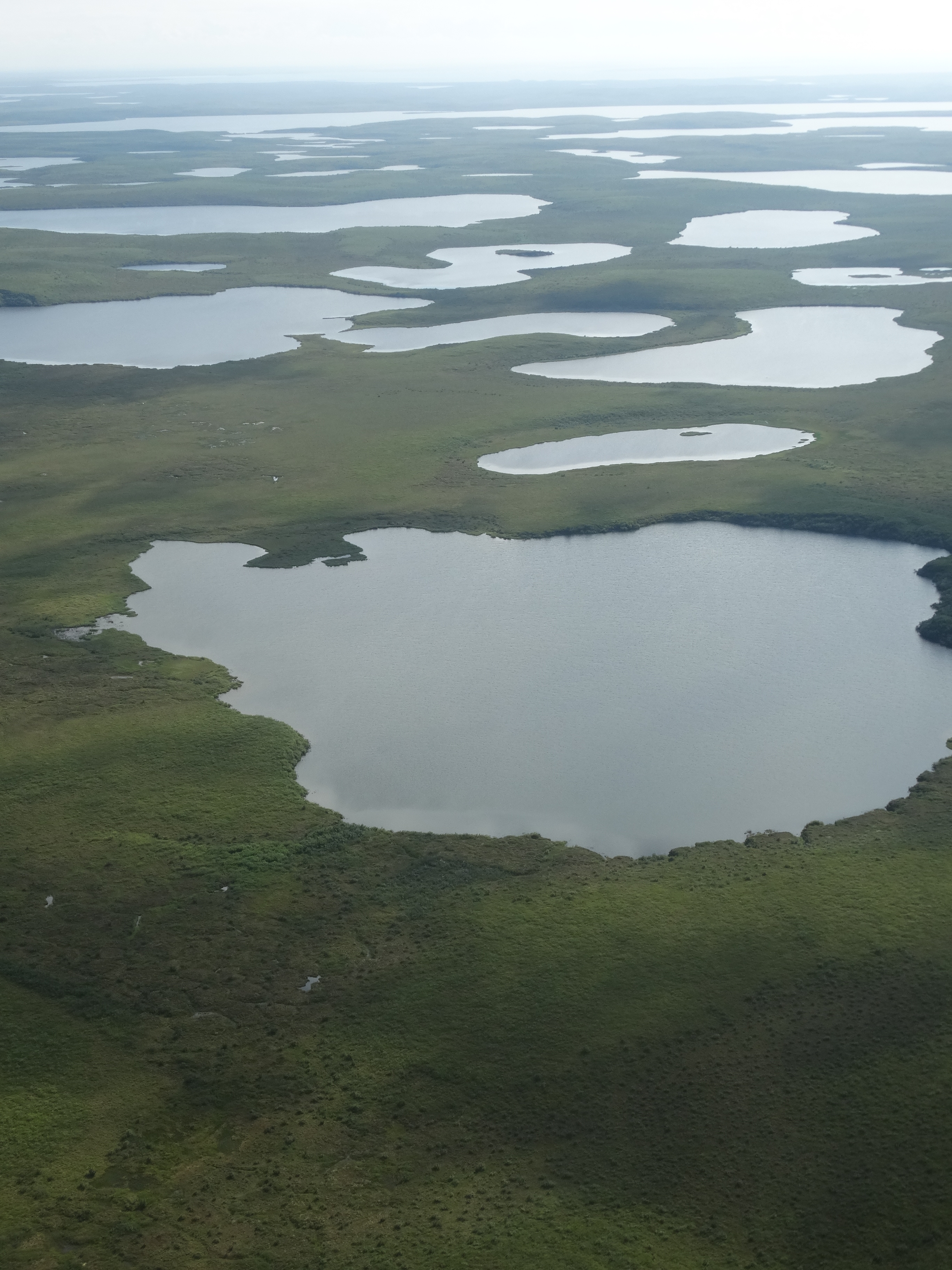 View over Mackenzie Delta from Cessna 172 - En route from Inuvik to Tuktoyaktuk - Northwest Territories - Canada - 03